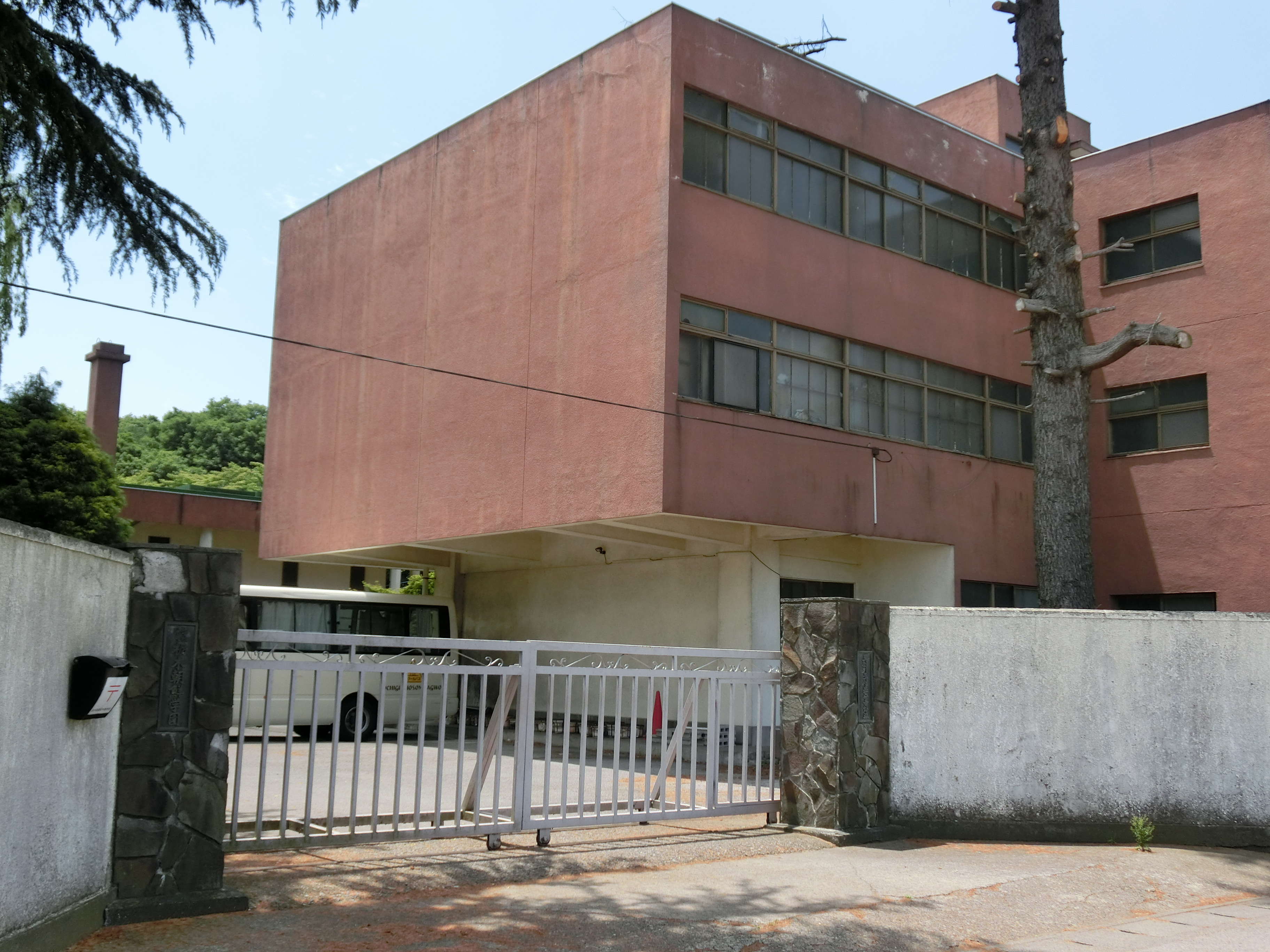 Tochigi Korean Elementary and Junior High School